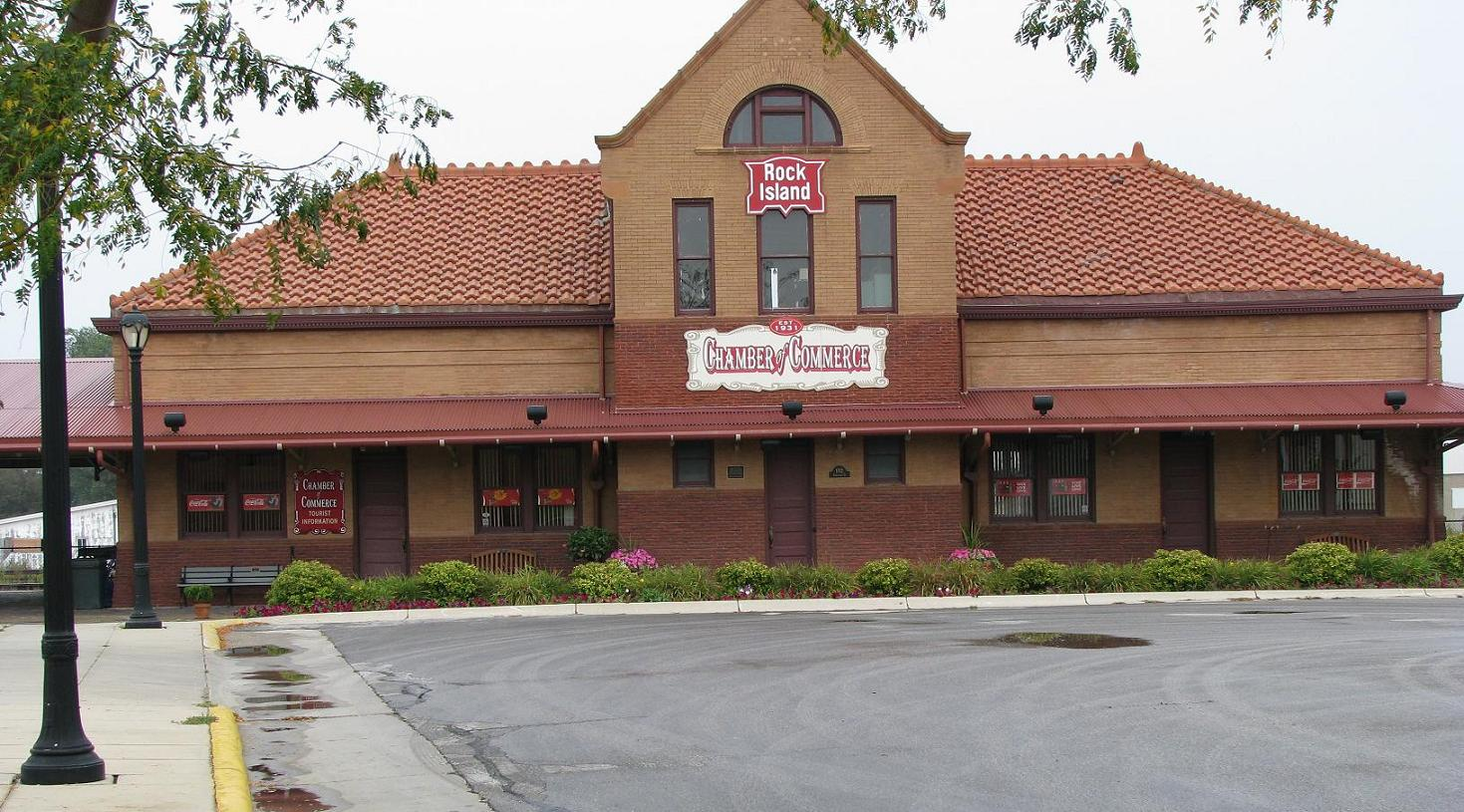 Rock Island Depot in Atlantic, Iowa